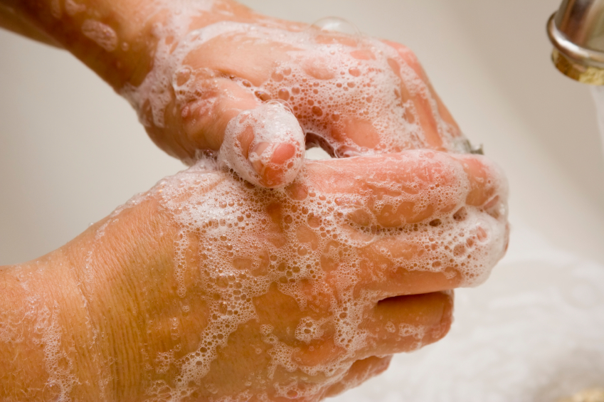 Cleaning hands.